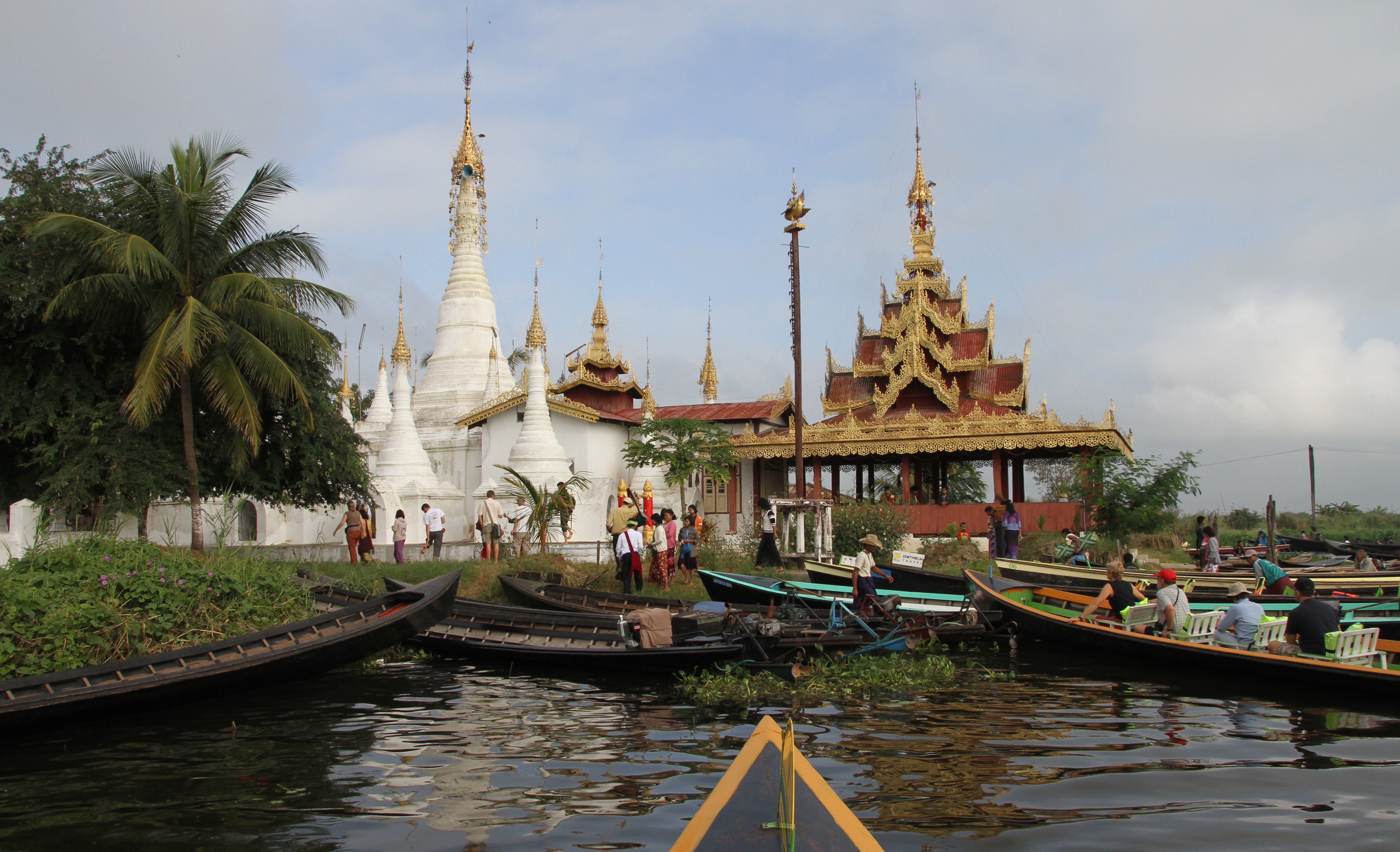 Inn Paw Khon monastery at Inle Lake in Myanmar.